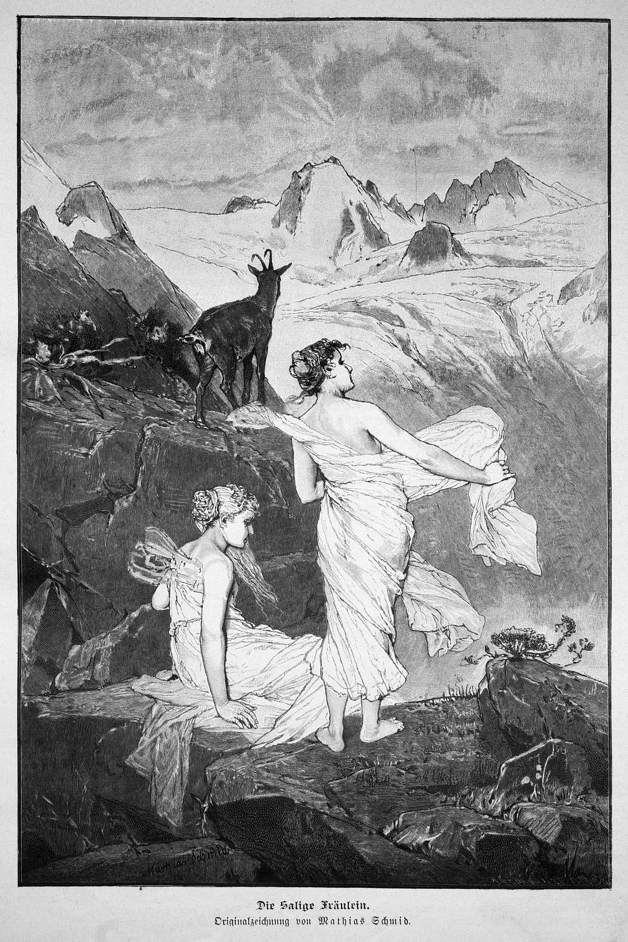 caption: "Die Salige Fräulein. Originalzeichnung von Mathias Schmid."